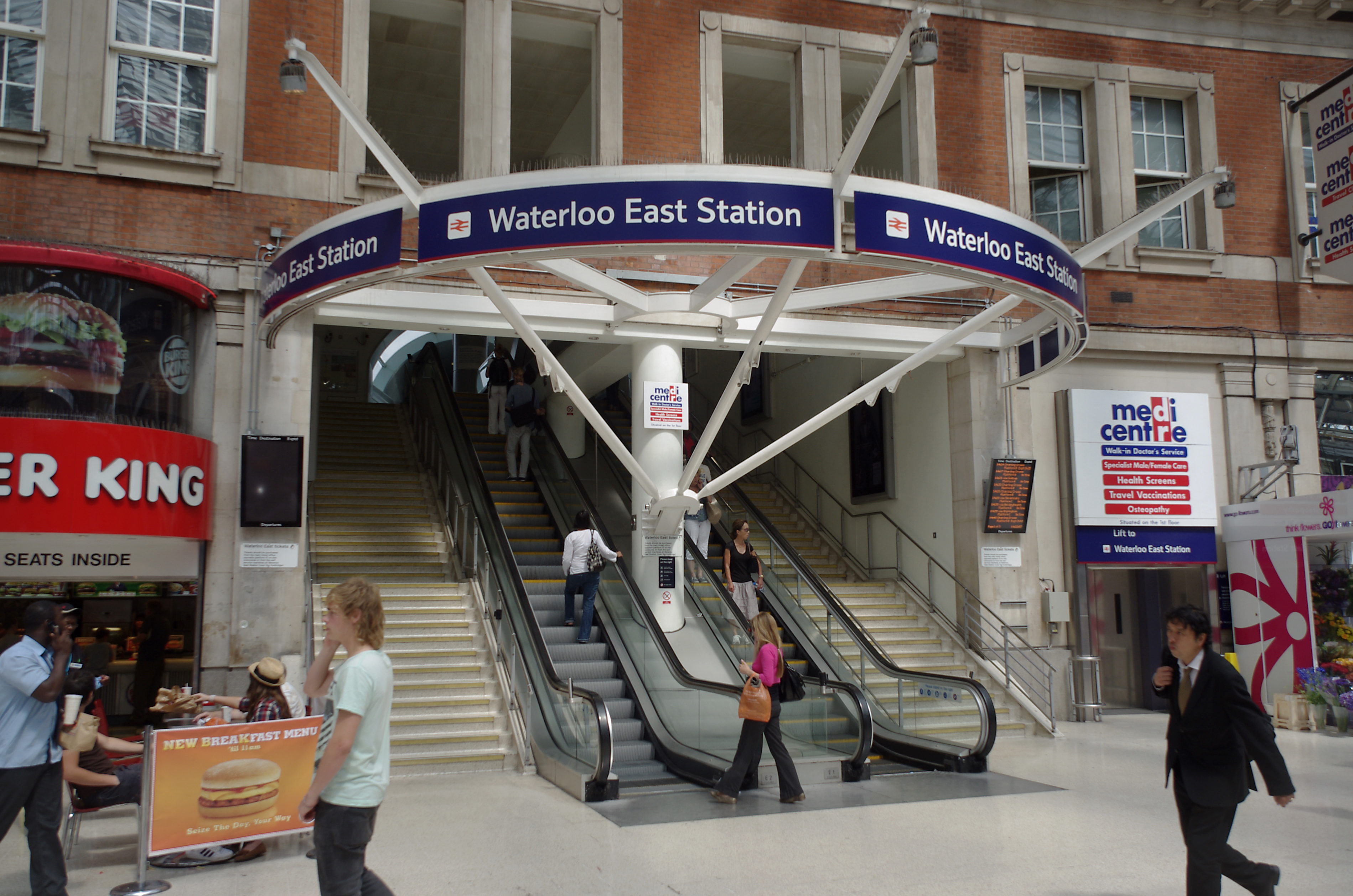 Entrance to Waterloo East railway station from the main concourse of London Waterloo.